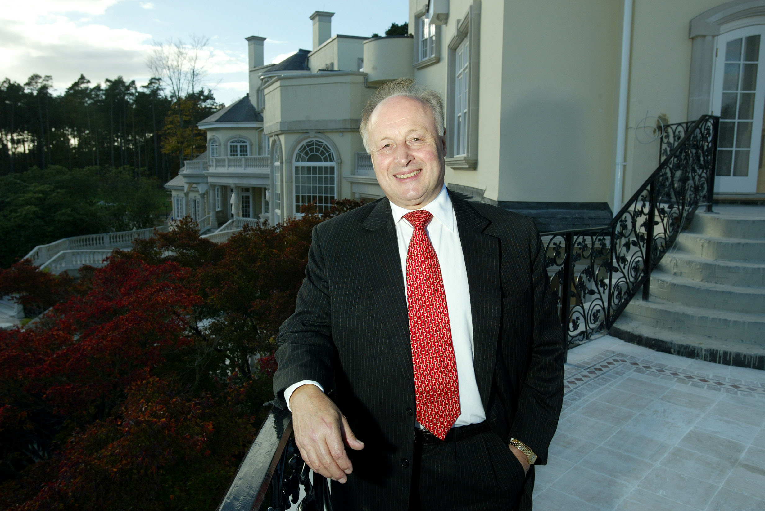 Picture of Leslie Allen-Vercoe Developer Updown Court Summer 2004